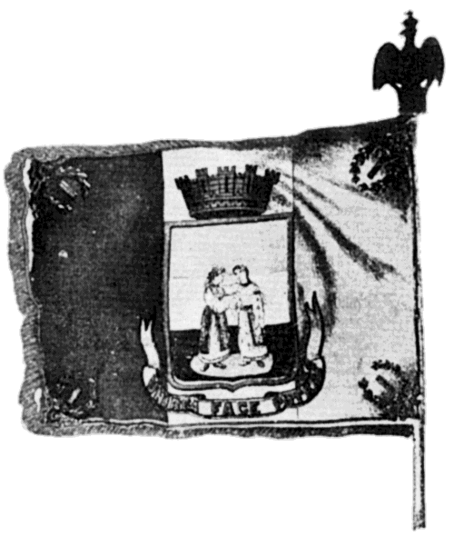 Flag of Civic Guard of Focşani, Romania (1867).